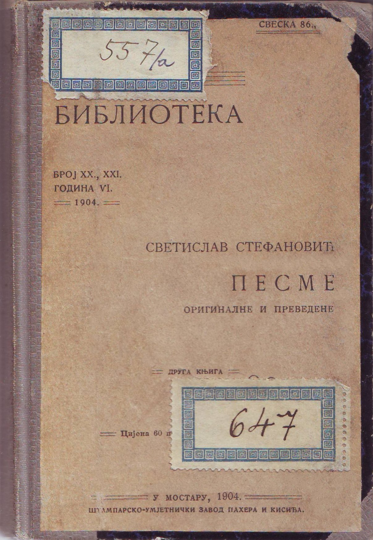 Cover of the poetry collection Pesme originalne i prevedene (1904) by Svetislav Stefanović. Srpski (latinica): Naslovna strana zbirke pesama Pesme originalne i prevedene (1904) Svetislava Stefanovića.